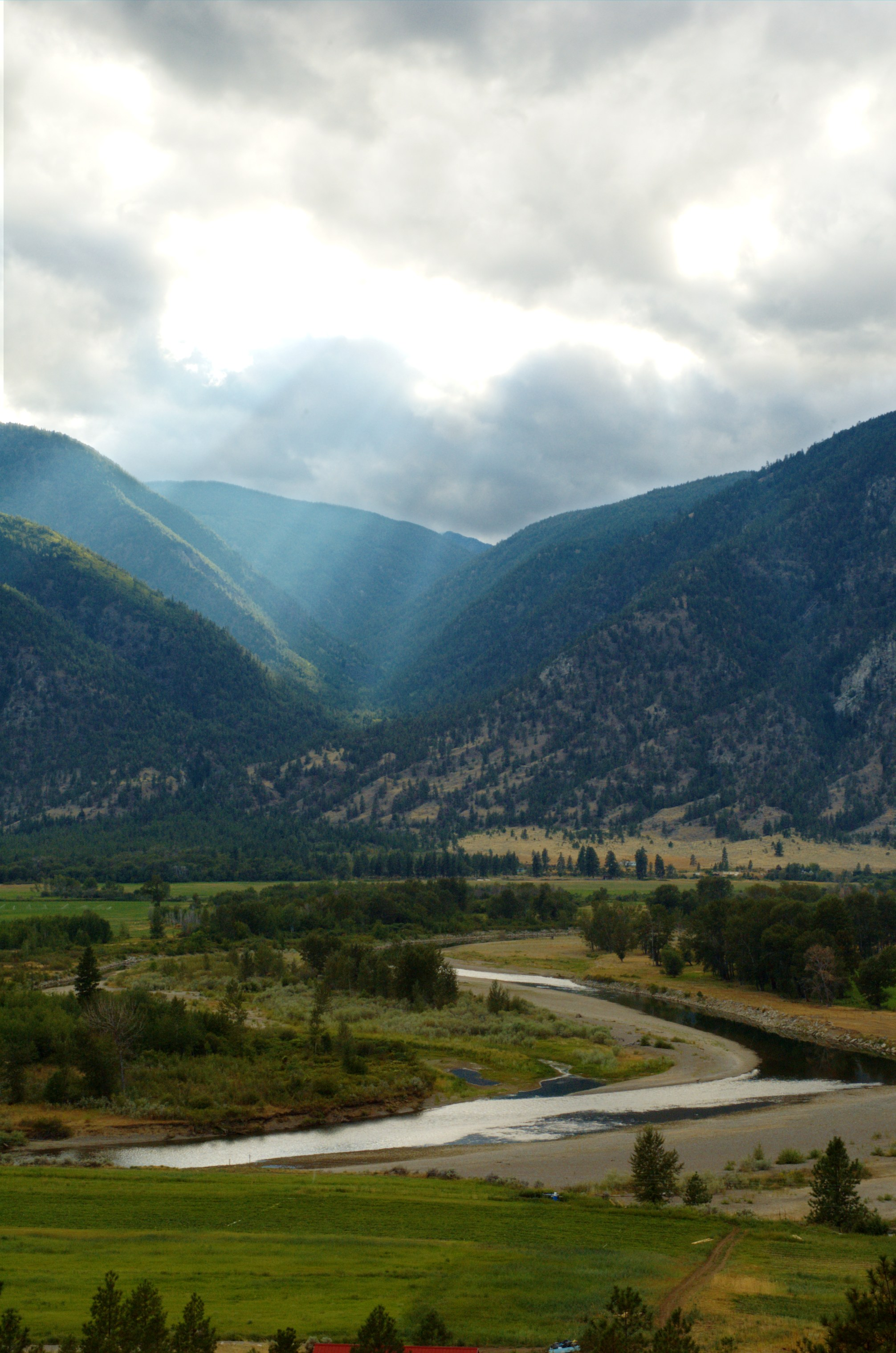 The Similkameen River near Keremeos, BC. Taken with a Nikon D70 camera, on August 17, 2005. See its Flickr page for more details. Author: doviende